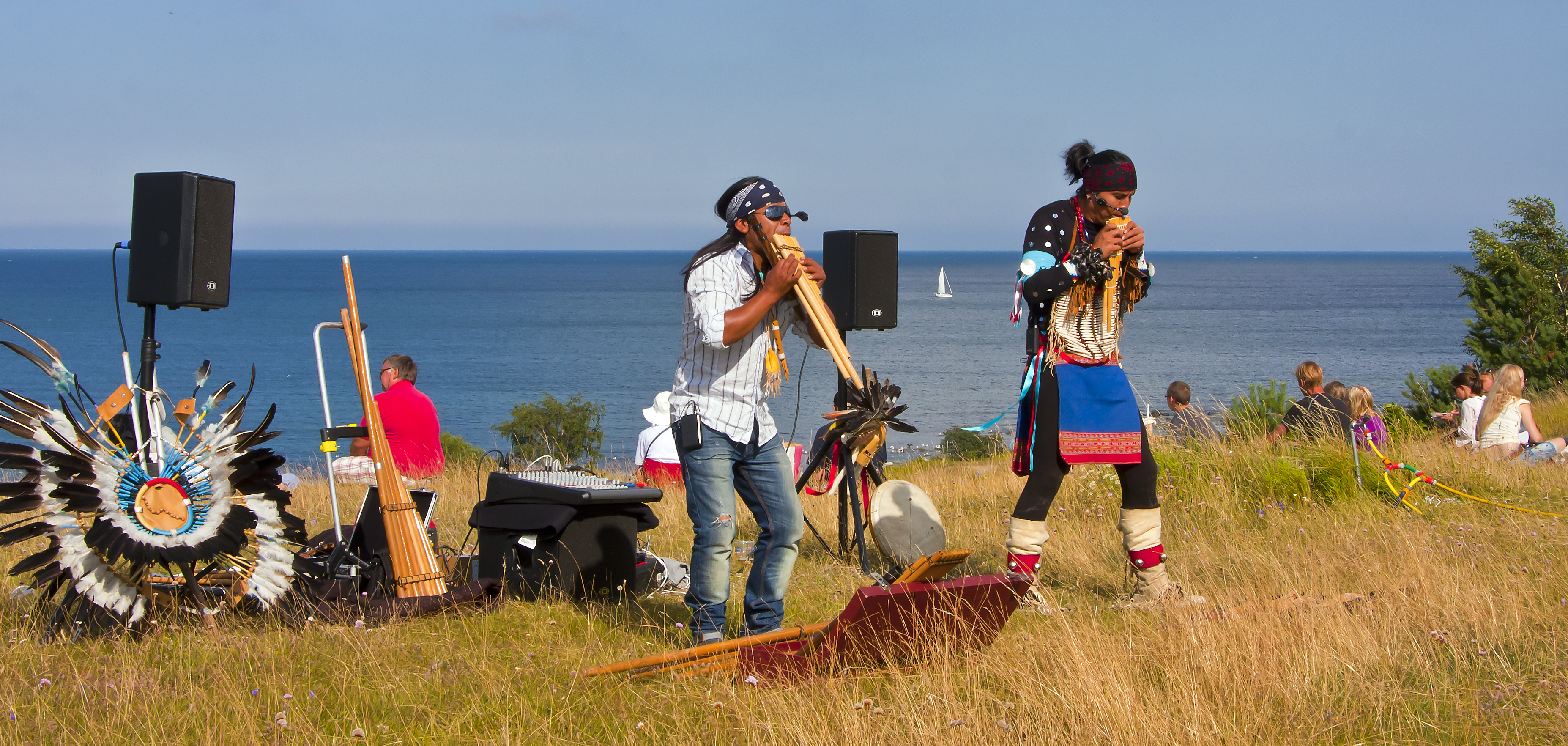 Latin American musicians at the "Kiviks marknad" fair in Scania, Sweden.